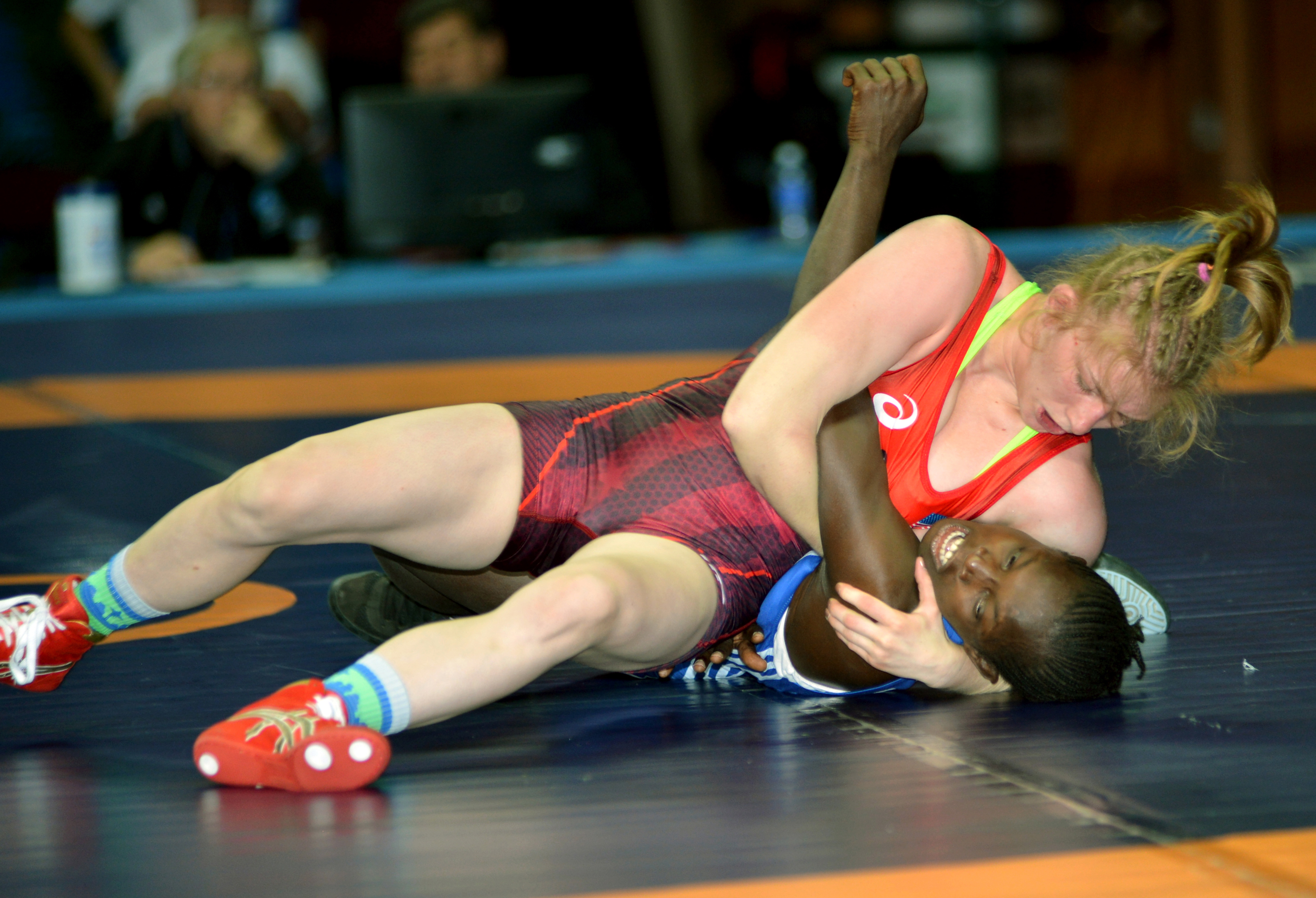 Sgt. Whitney Conder of the U.S. Army World Class Athlete Program pins Isabelle Sambou in their opening match of the women's 53-kilogram freeestyle division of the 2015 World Wrestling Championships on Wednesday at the Orleans Arena in Las Vegas. U.S. Army photo by Tim Hipps, IMCOM Public Affairs